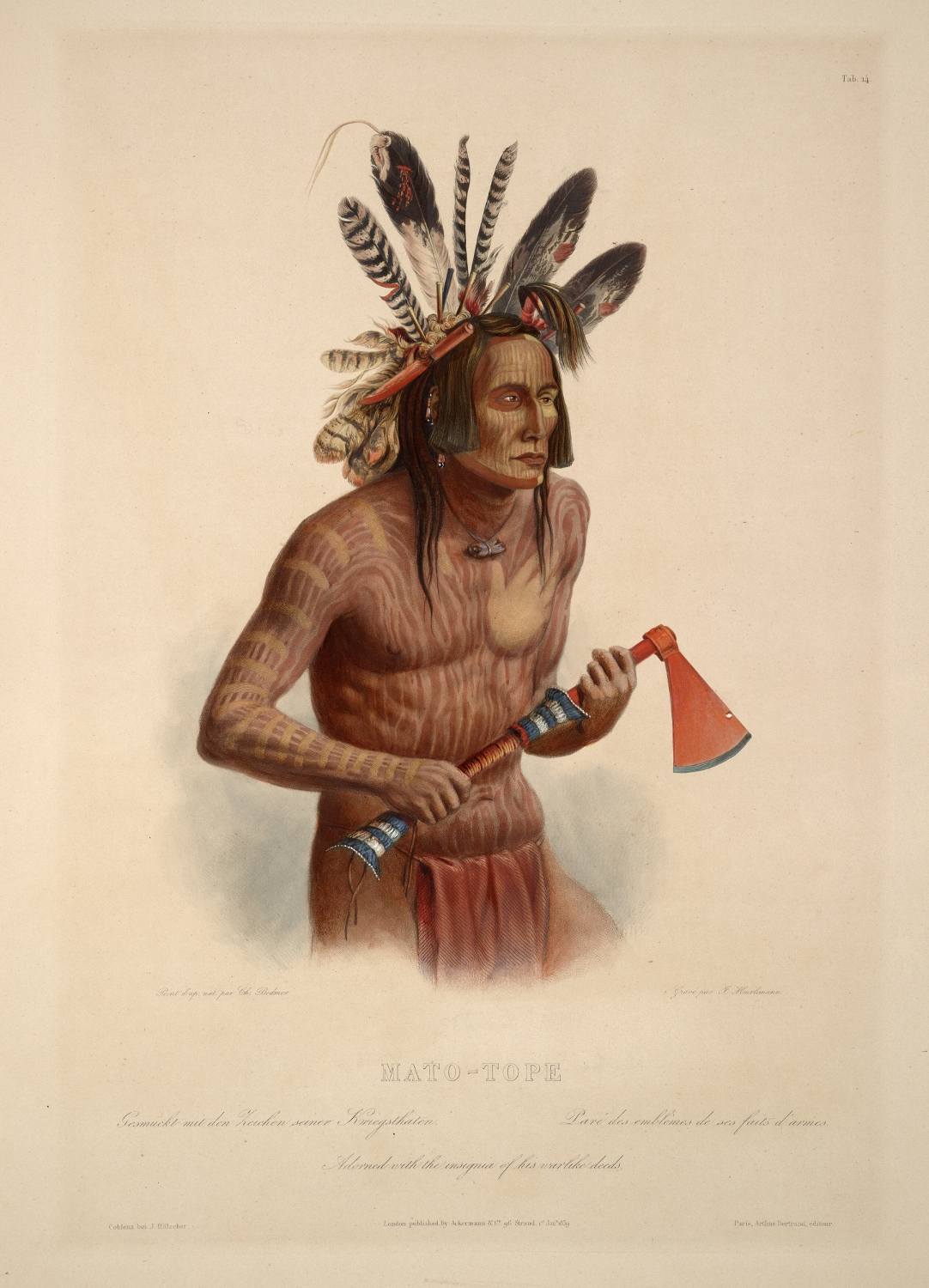 Aquatint by Karl Bodmer (1809 - 1893)